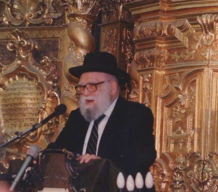 Avraham Kahneman